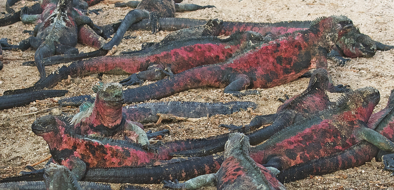 Marine Iguana Photo taken on Espanola Island, Galapagos, Ecuador.